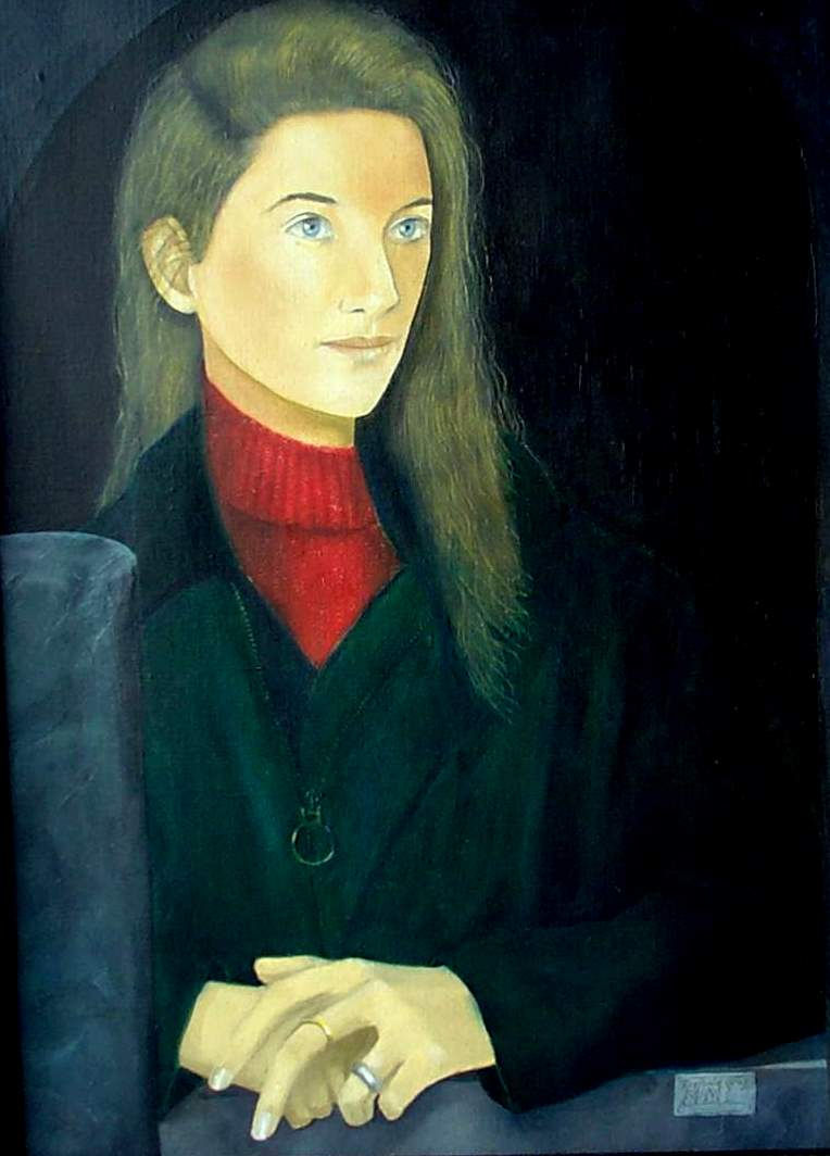 portrait on canvas